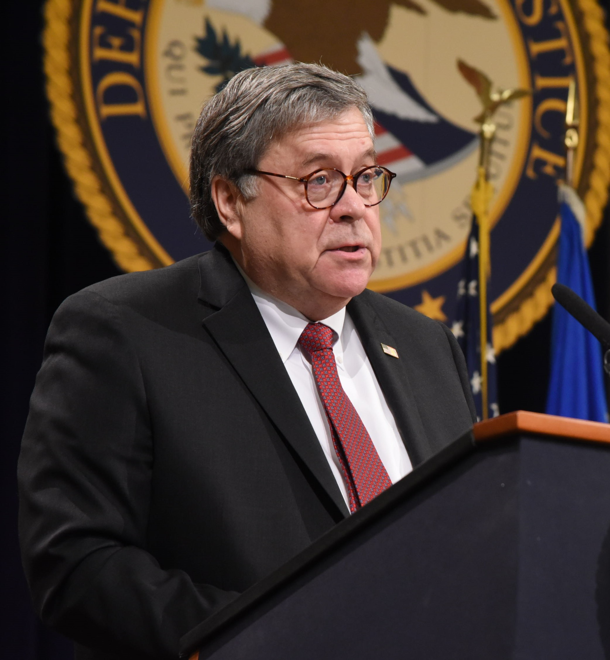 The Department of Justice held its 2019 African American (Black) History Month Observance Program in the Great Hall of the Robert F. Kennedy Main Justice. Special remarks were provided by Attorney General William P. Barr. United States Attorney for the Middle District of Alabama Louis V. Franklin, Sr., delivered the keynote address.